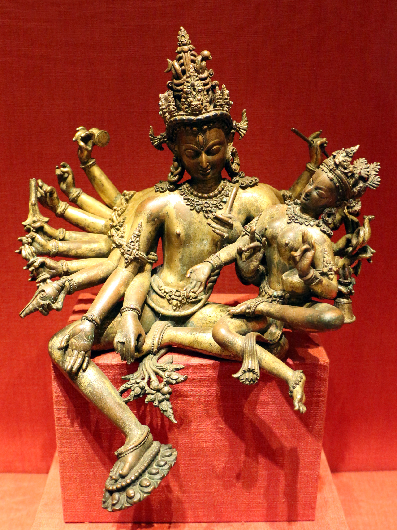 Art of Himalaya in the Cleveland Museum of Art